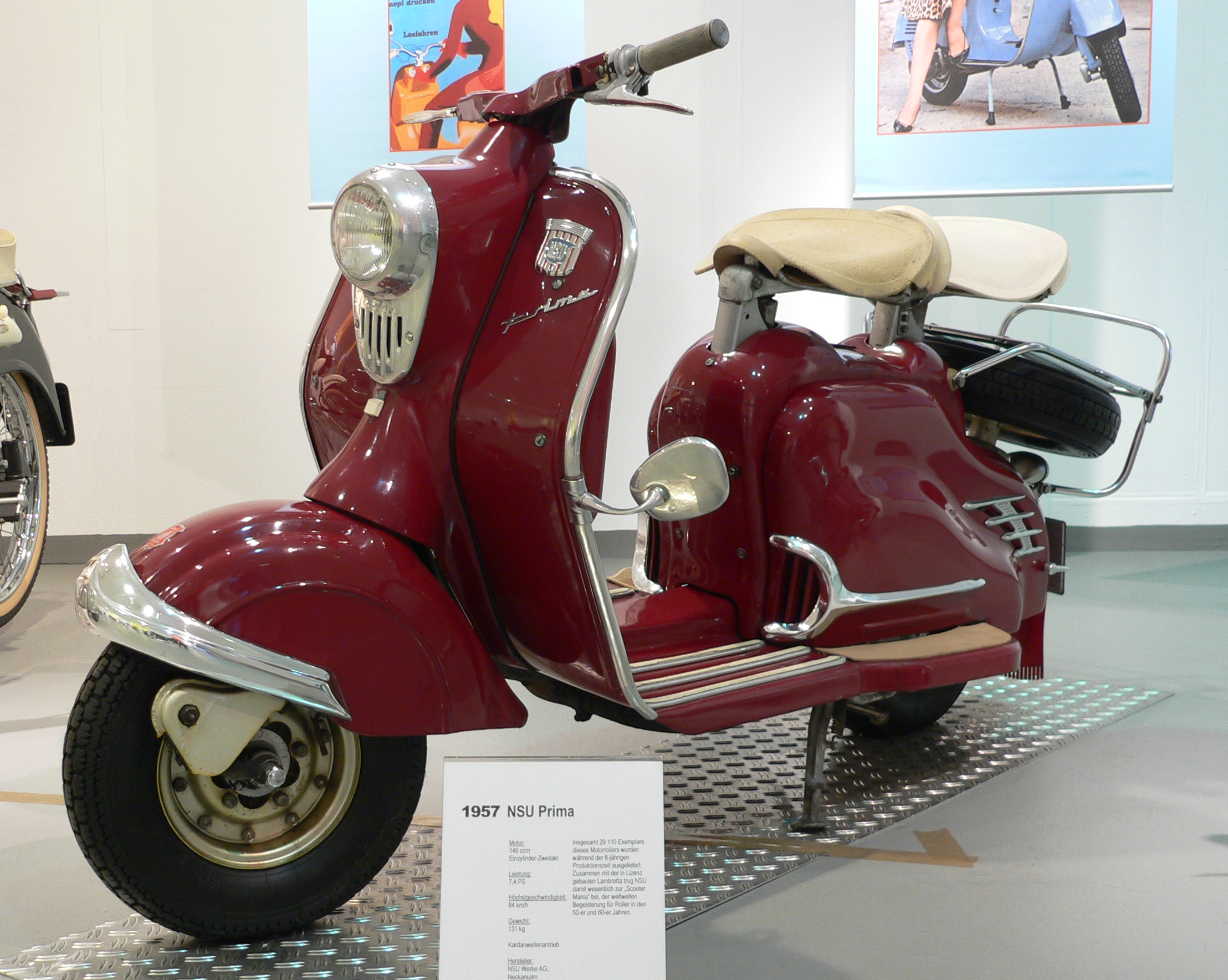 NSU-Prima (from 1957), photo taken at the Deutsches Zweirad- und NSU-Museum